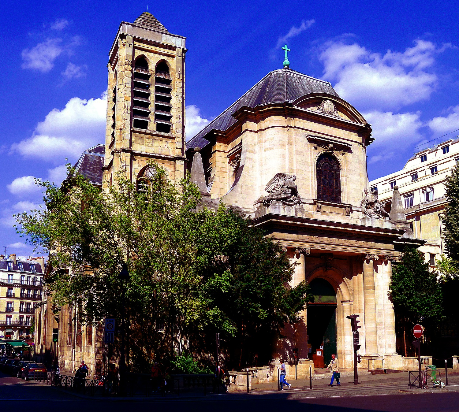 Saint-Nicolas-du-Chardonnet church - Paris